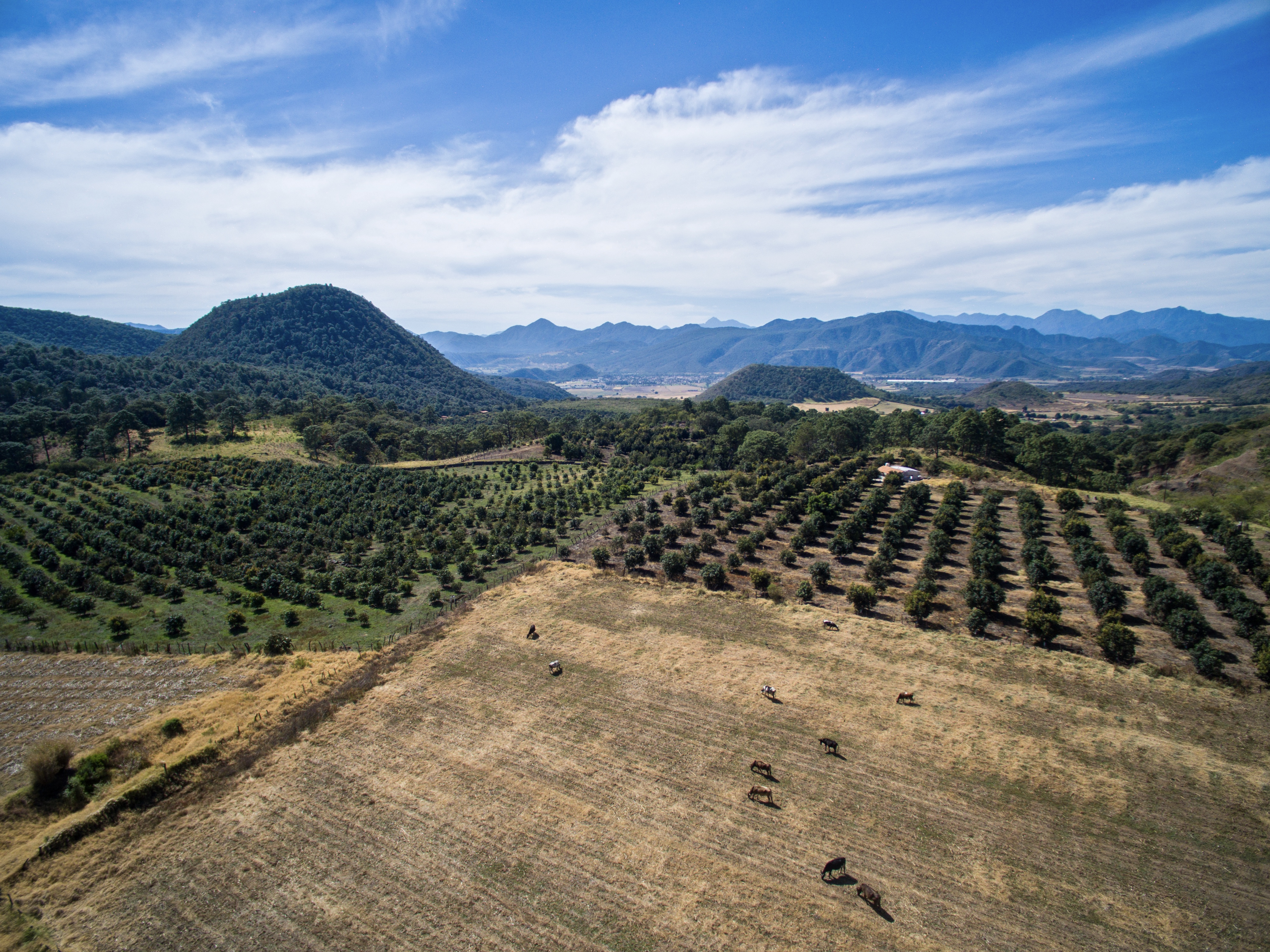 Aerial photograph of farms north of Mascota, Jalisco, Mexico.